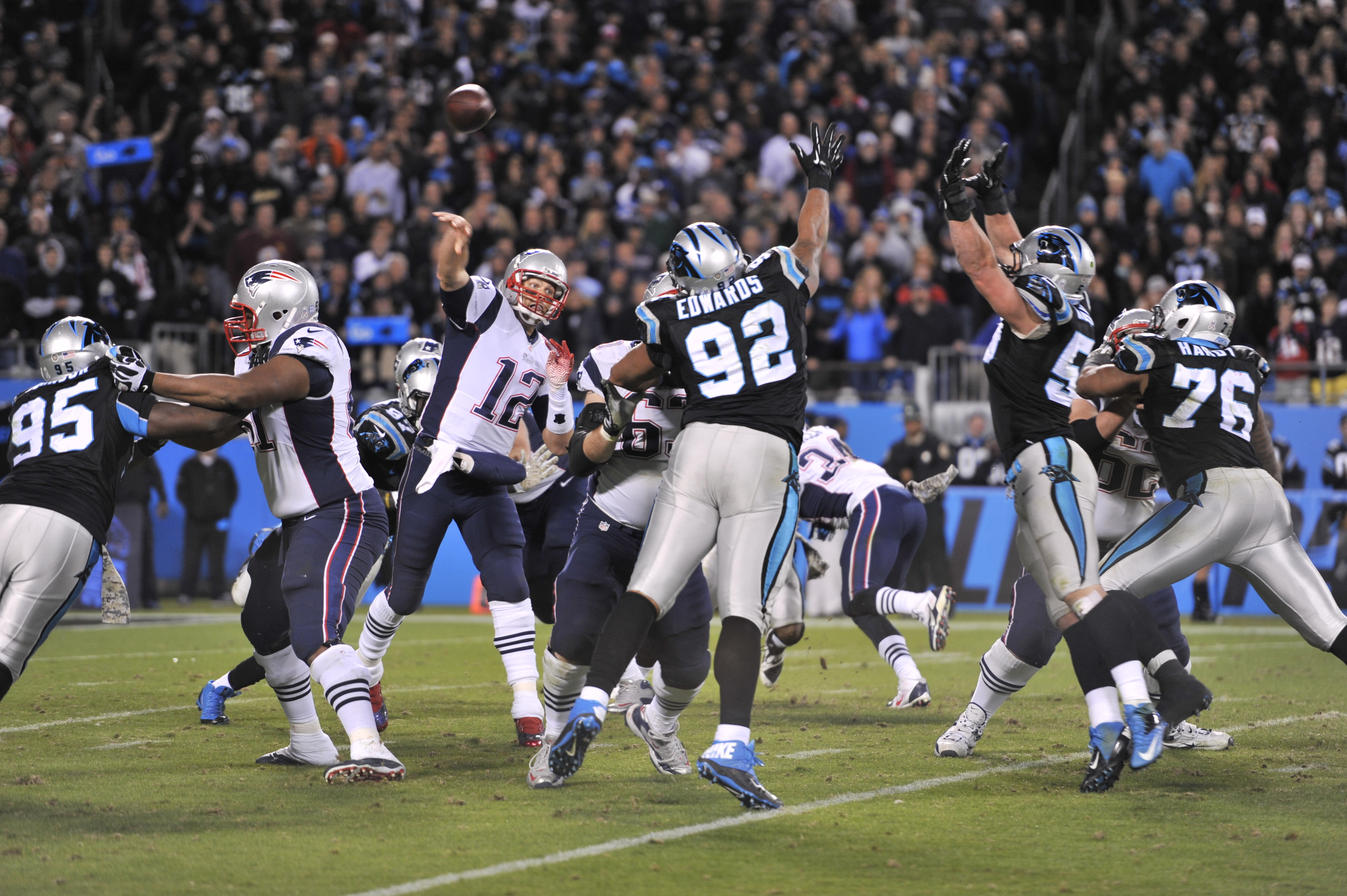 Tom Brady, New England Patriots quarterback, wearing number 12, attempts a pass against the stout Carolina Panthers defense during the Panthers verses Patriots Monday Night Football game at Bank of America Stadium, Charlotte, N.C., Nov. 18, 2013. Brady and the Patriots put up a solid performance against the Panthers, who would win on the very last play of the game. (U.S. Air Force photo by Airman 1st Class Jonathan Bass/Released)